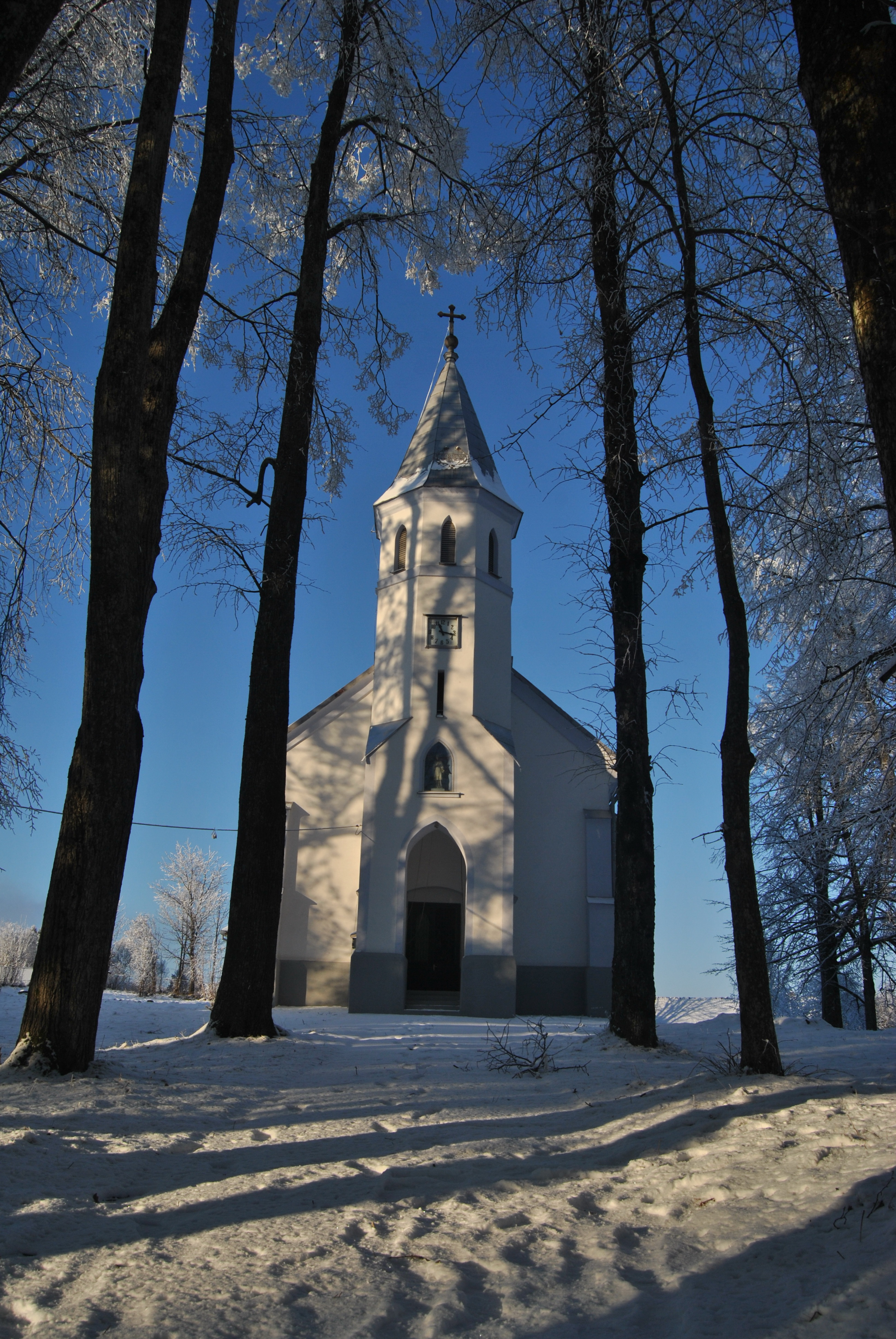 View from Brebu Nou in the winter of 2010.